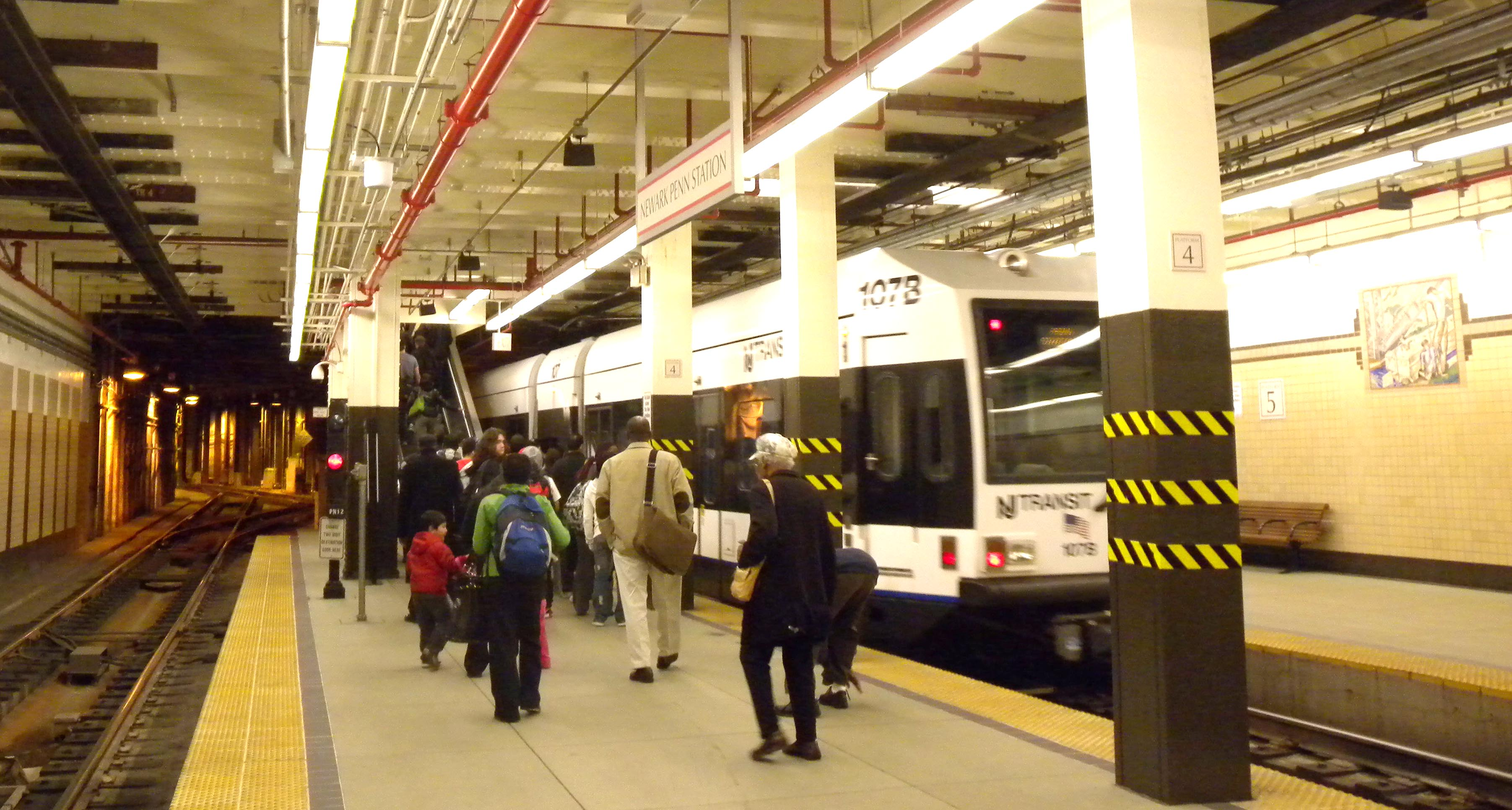 Looking south as passengers exit trolley platform at Penn Station. See also File:NRL Pennsylvania jeh.JPG.